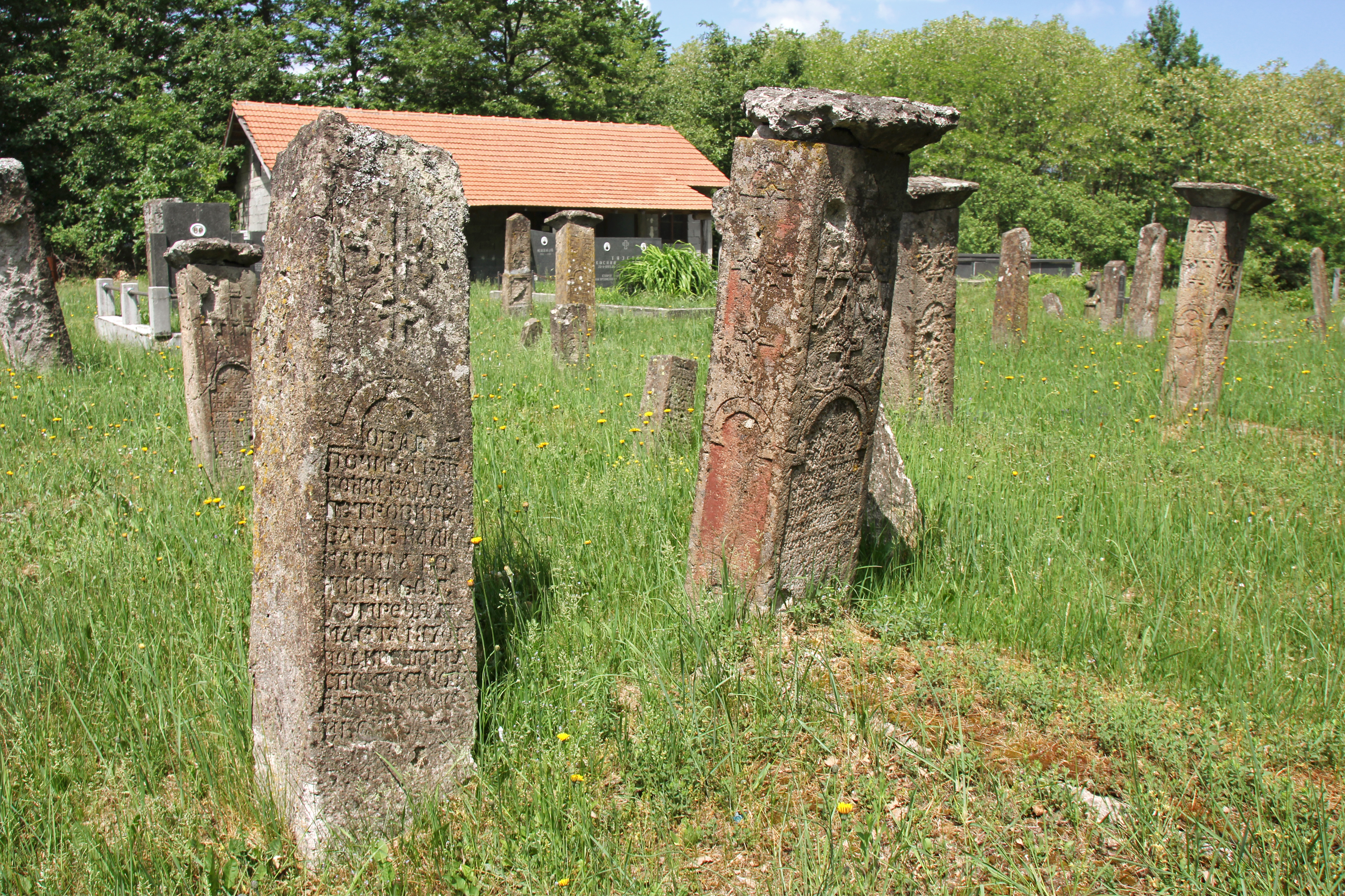 Old gravestones at the cemetery in the village of Kalimanici (the municipality of Gornji Milanovac), Serbia.